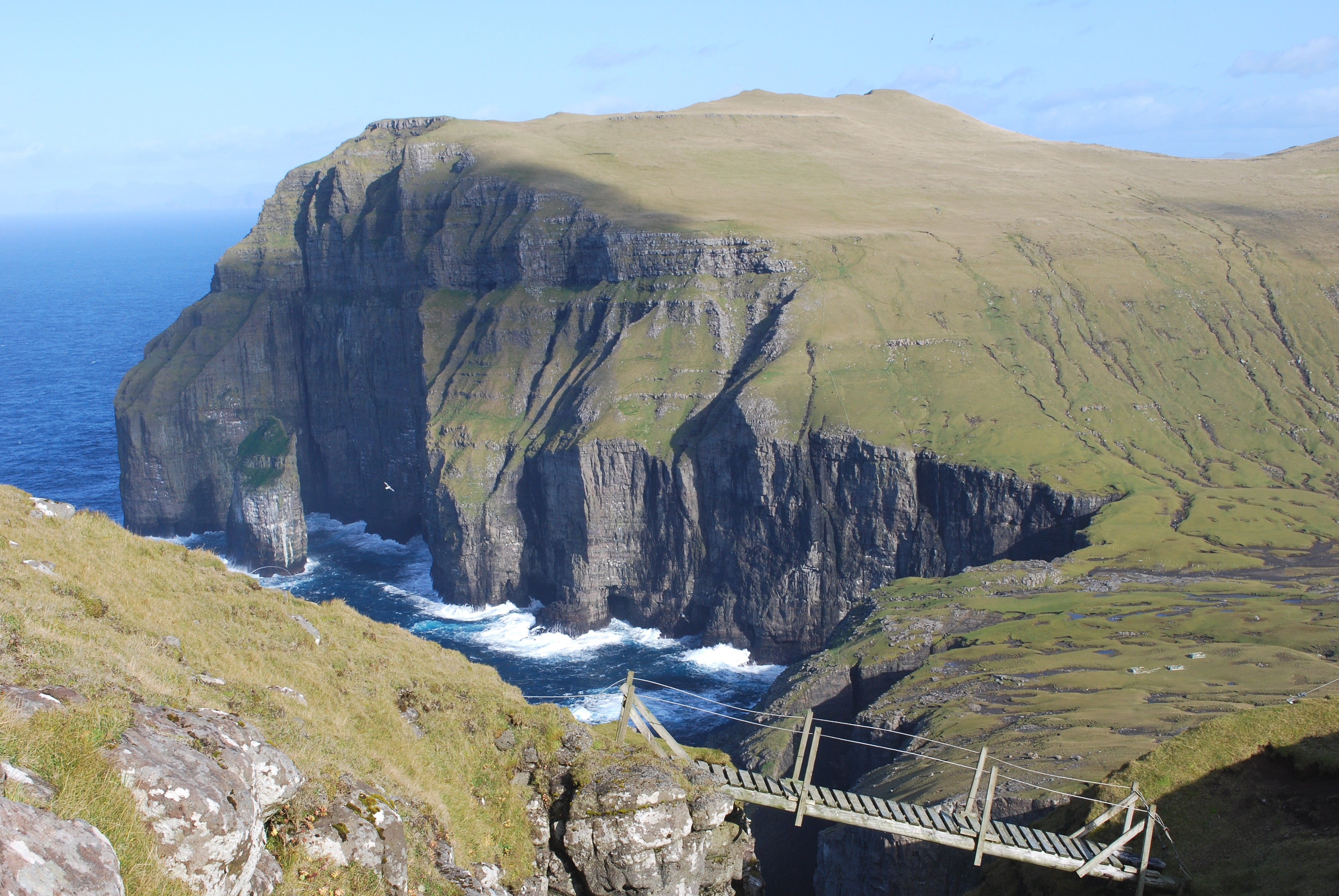 Ásmundurstakkur west of Sandvík west of Sandvík, Suðuroy, Faroe Islands